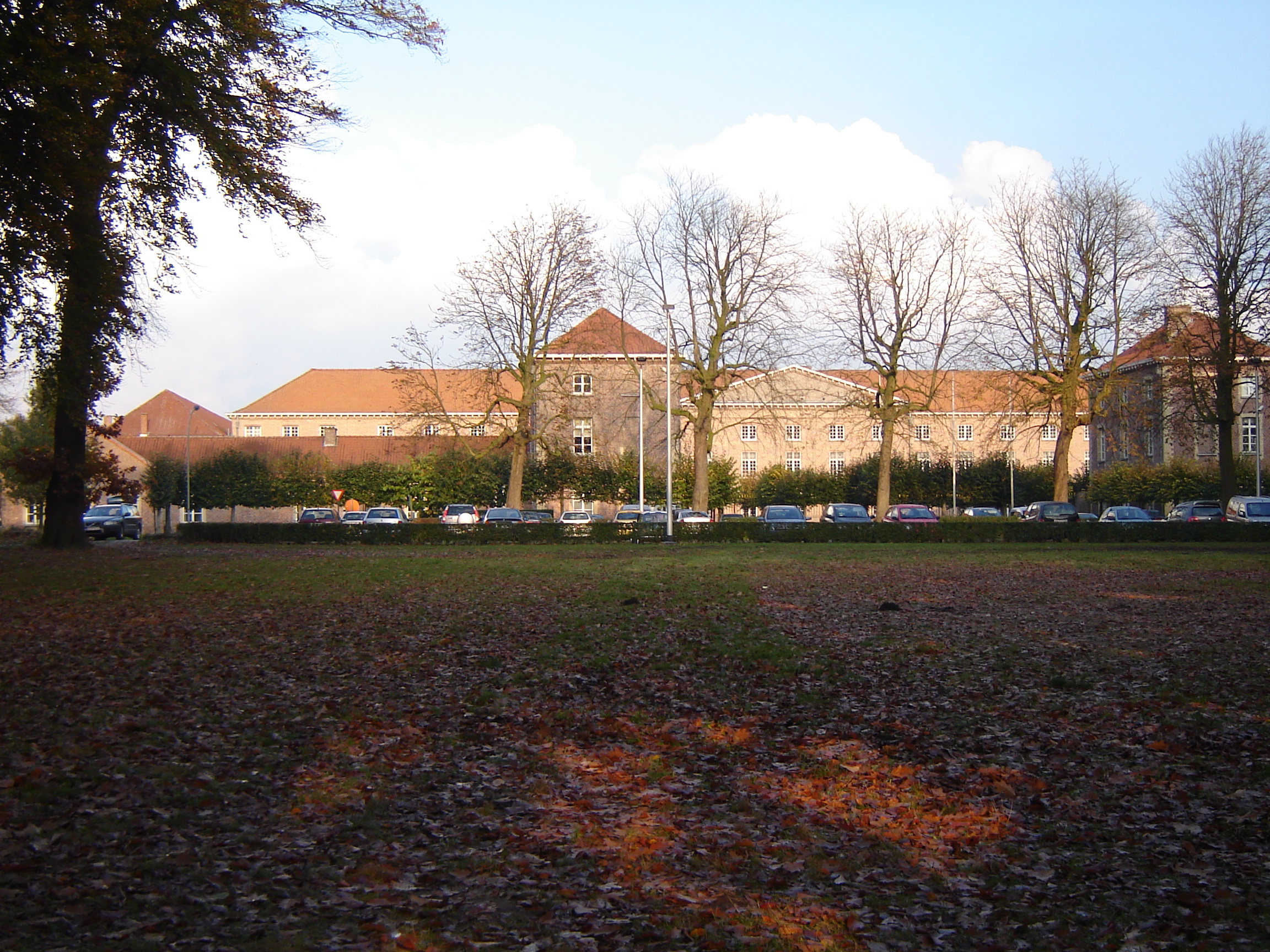 Complex on the Sint-Pietersveld in Ruiselede (on the border with Wingene)